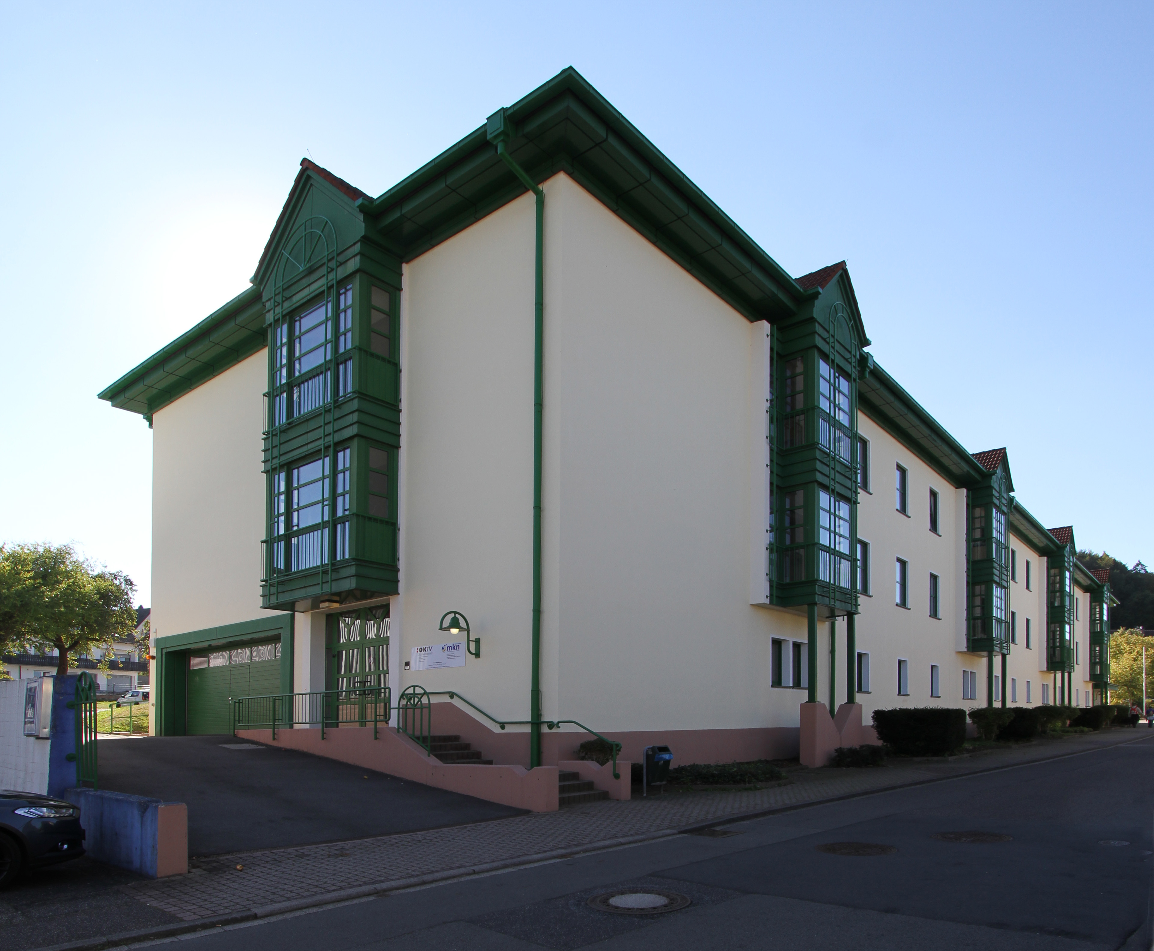 Building of the administration of the Collective municipality Rodalben